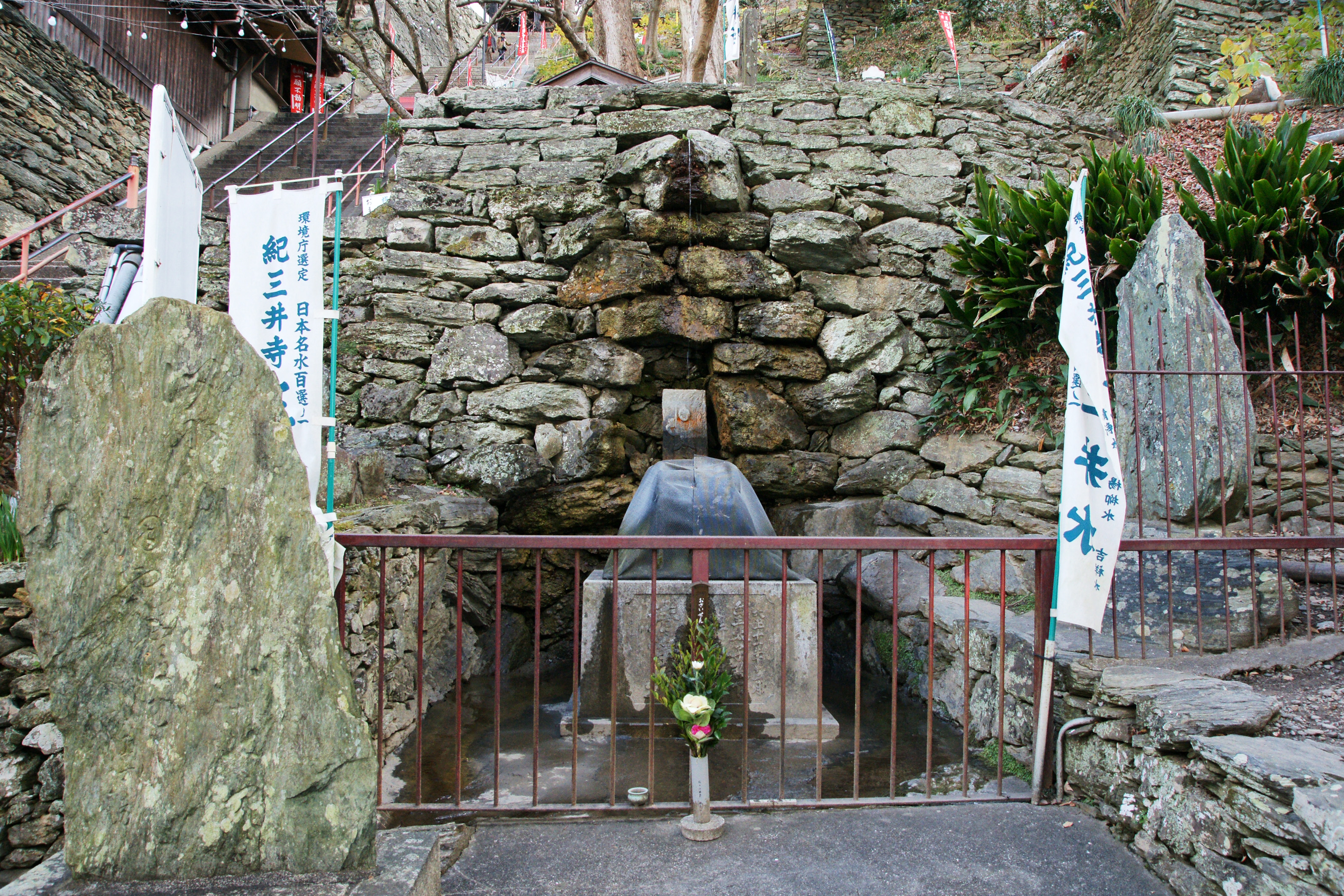 Kimiidera in Wakayama, Wakayama prefecture, Japan